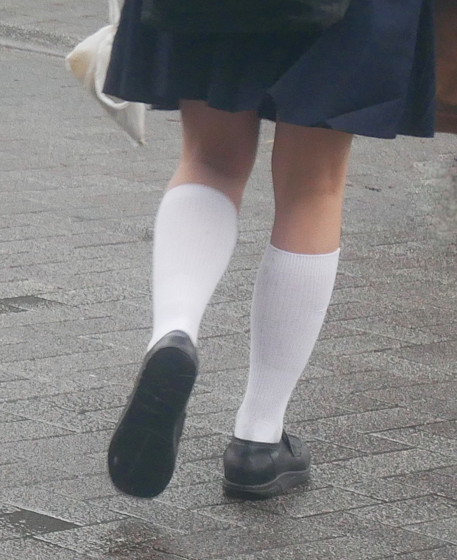 White socks (白い靴下)